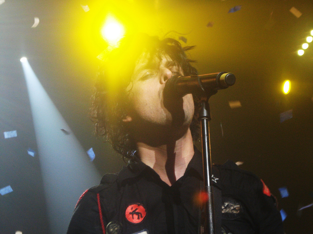 Billie Joe Armstrong of Green Day performing at Madison Square Garden on July 28, 2009. Billie Joe Armstrong